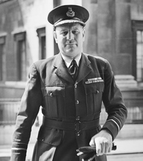 London, England. 1948-04-25. Air Vice Marshal Mackinolty RAAF walks up the steps of the church of St Martin-in-the-Fields, for the Anzac Day Memorial Service.